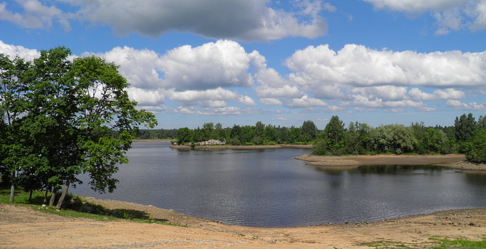 Sēlpils Castle ruins on island in Daugava RiverLatviešu: Sēlpils pilsdrupas uz saliņas Daugavā